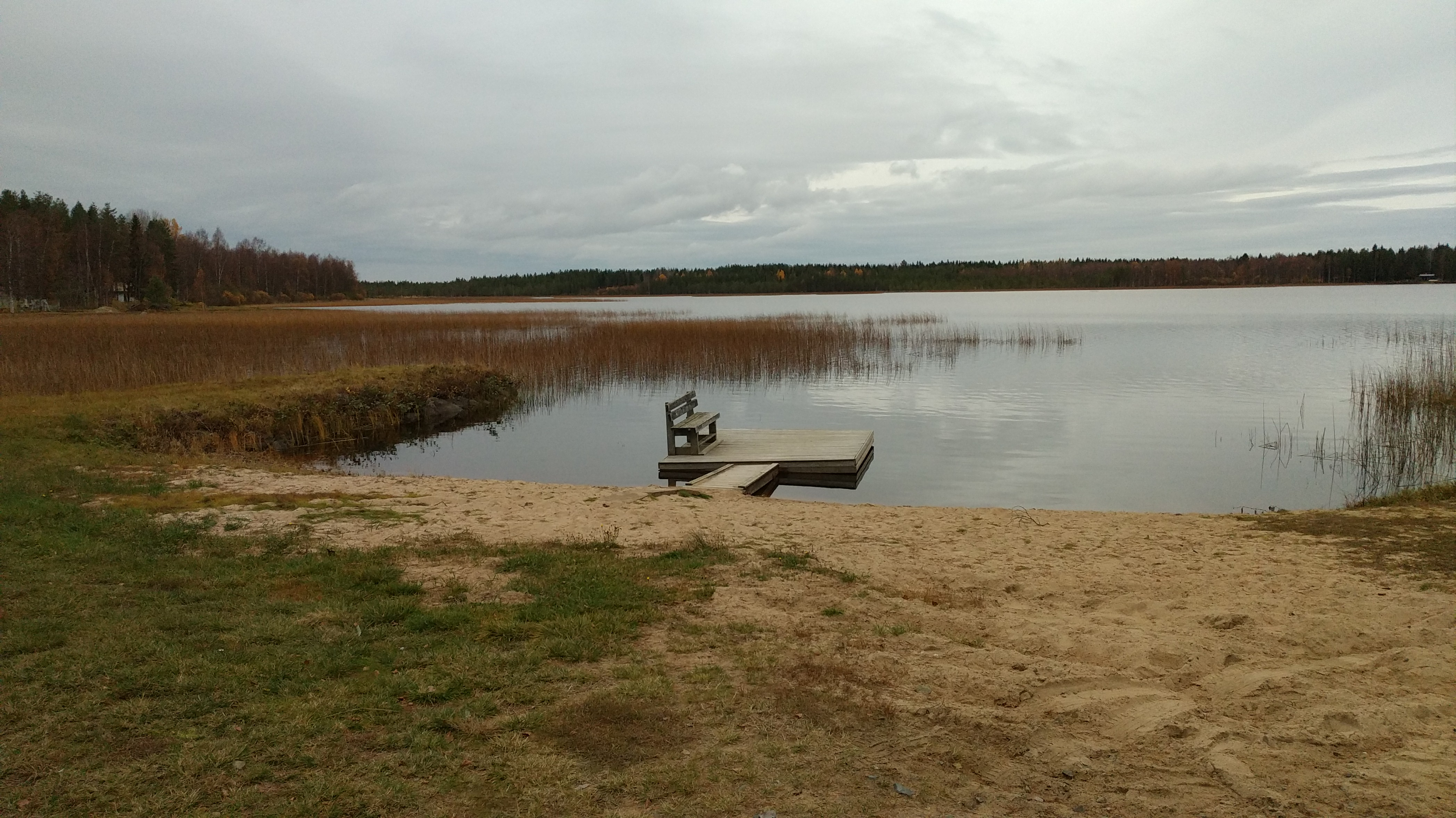 A beach sight to the lake Onkamonjärvi in Onkamo, Haukipudas, Jokikylä, Oulu, Finland.